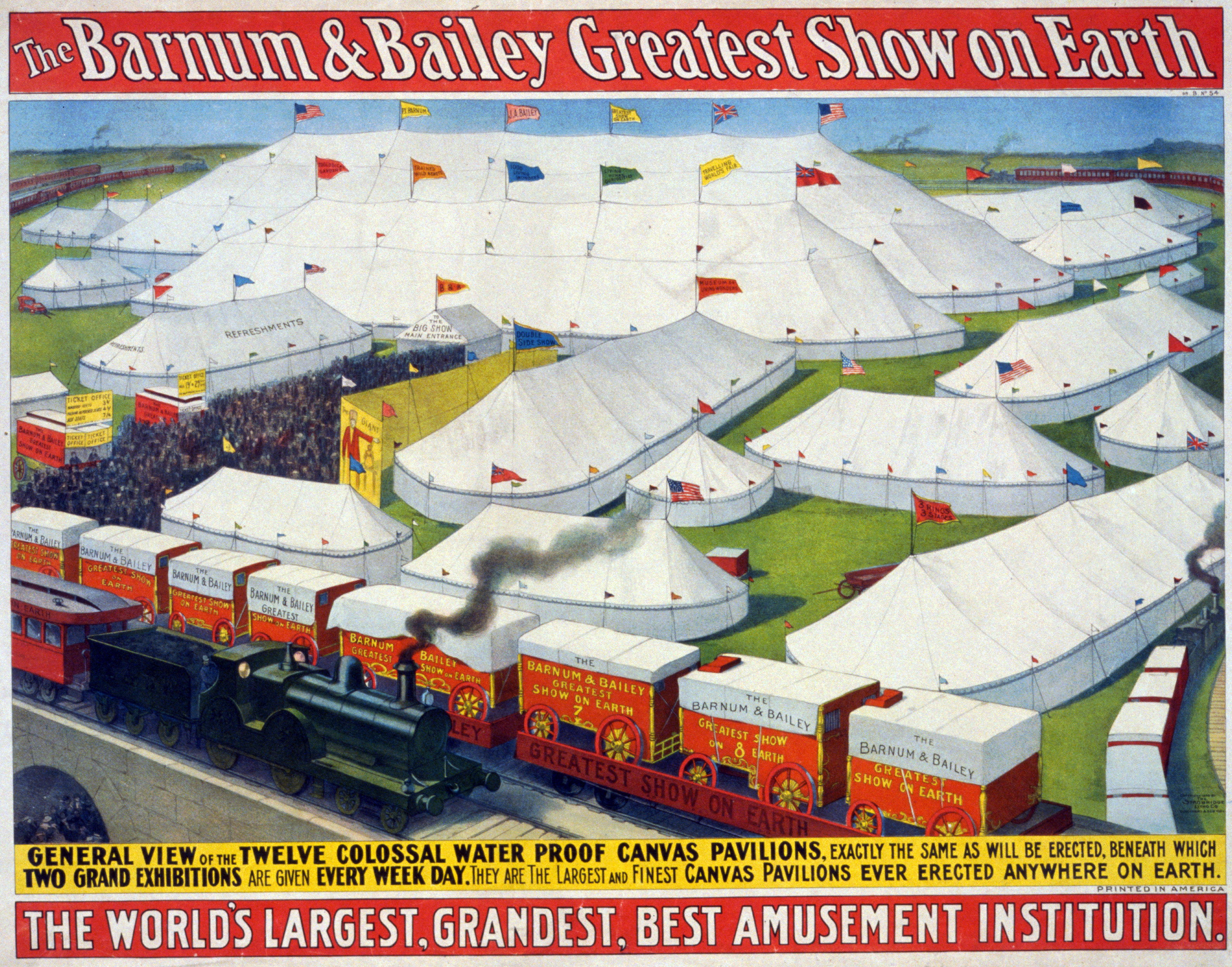 The Barnum & Bailey greatest show on Earth, the world's largest, grandest, best amusement institution. General view of the twelve colossal water proof canvas pavilions, ...